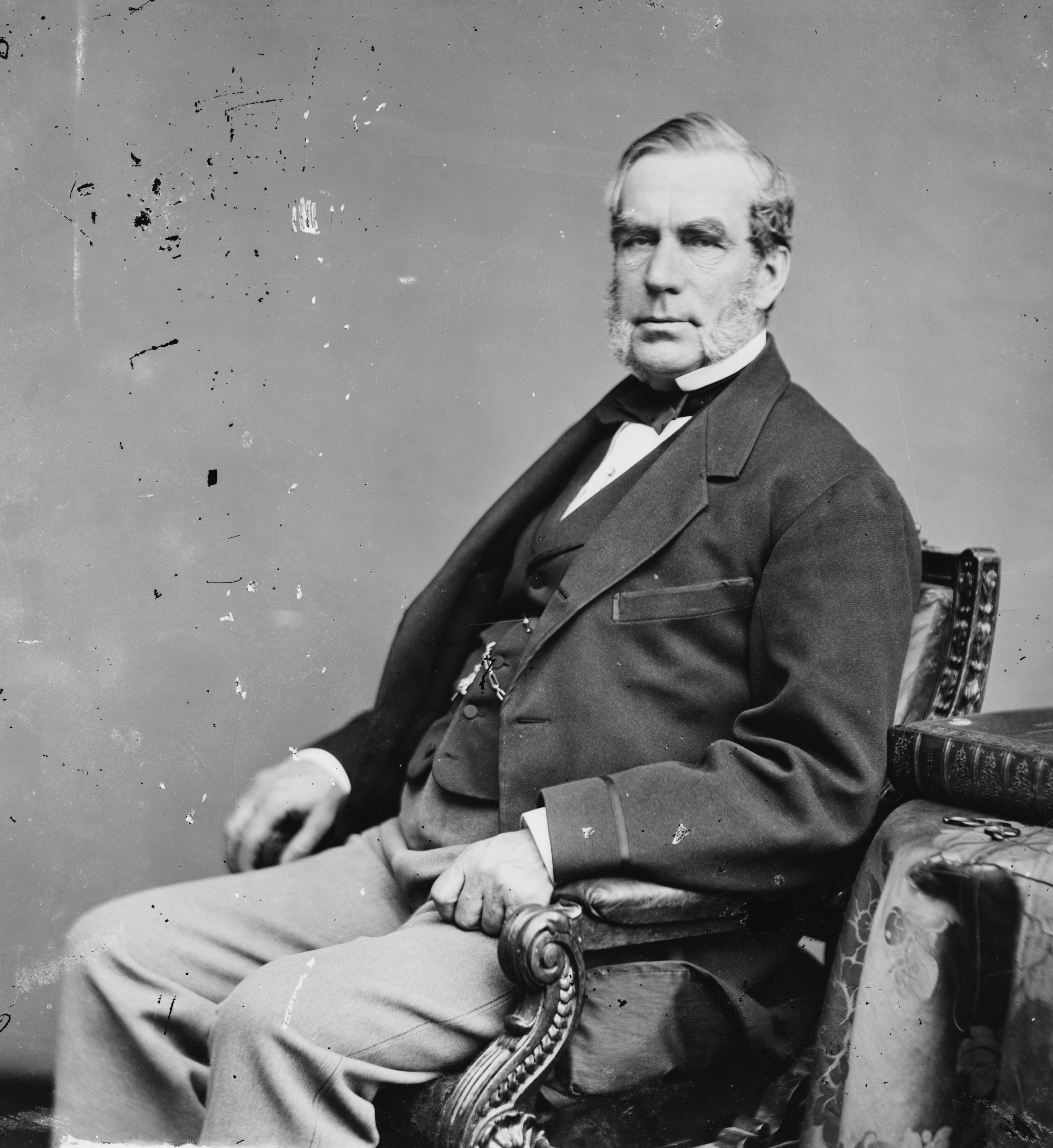 Edwin D. Morgan. Library of Congress description: "Hon. Edwin Denison Morgan of N.Y."